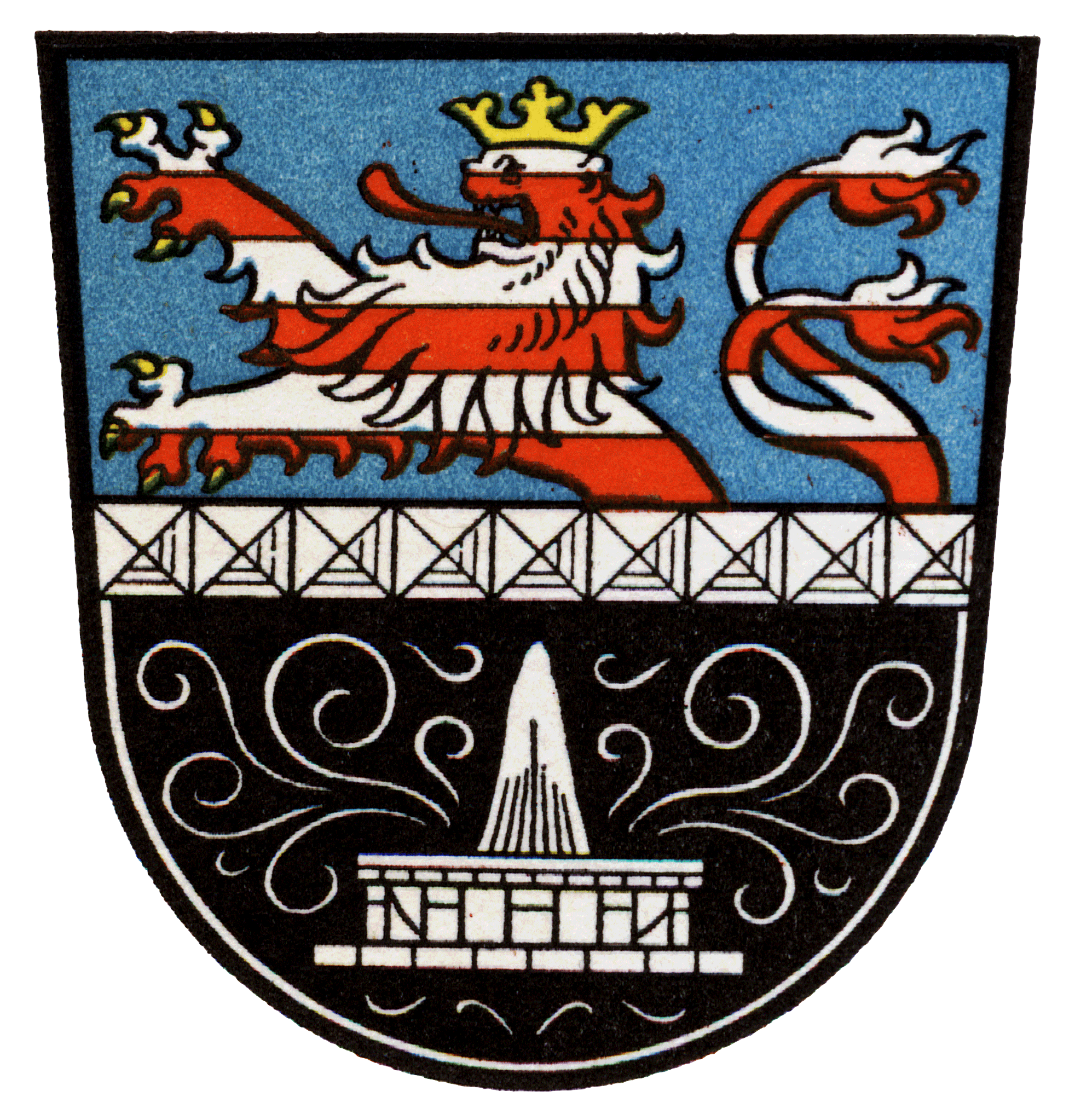 Coat of Arms of Bad Nauheim